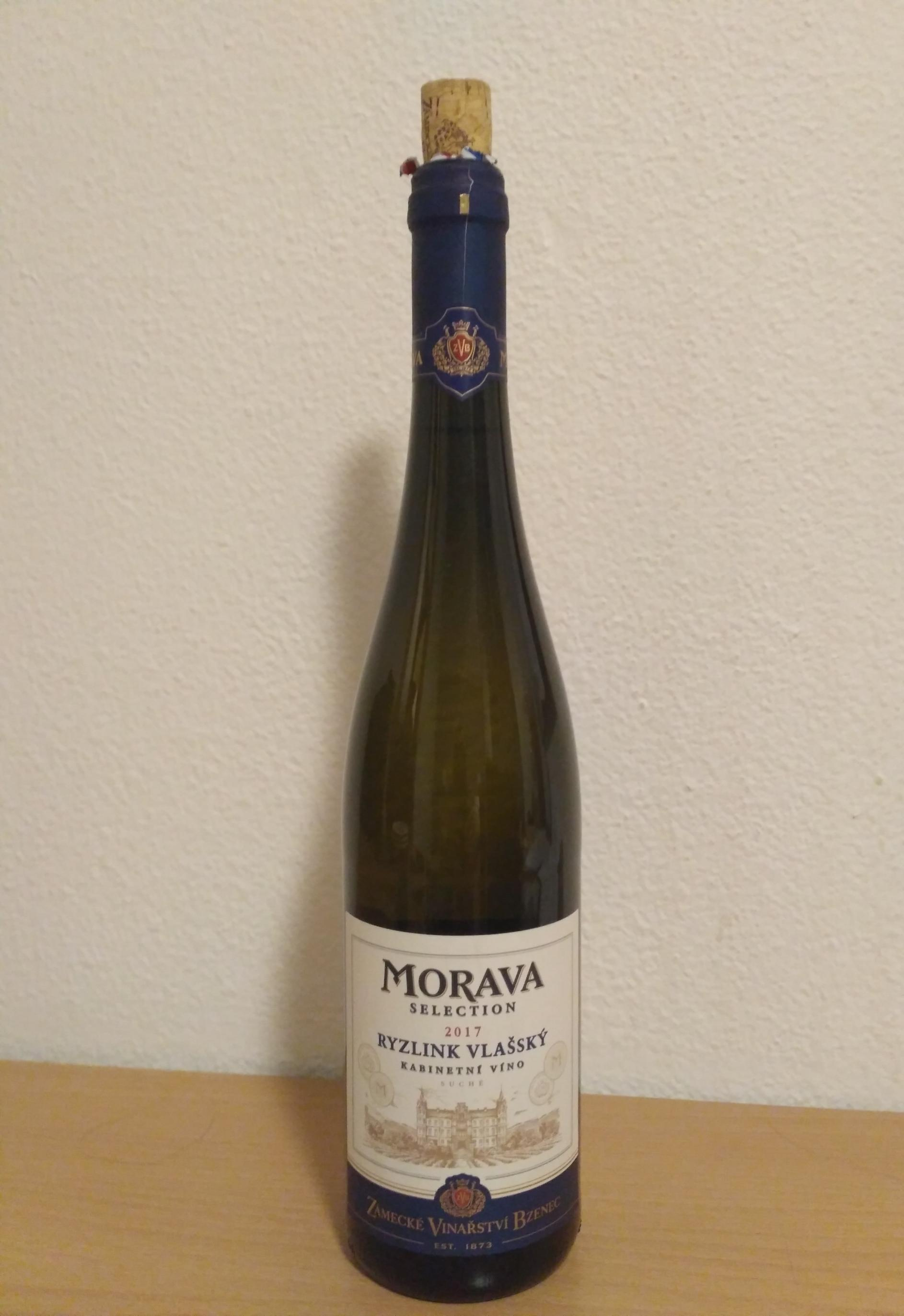 vine of Moravia